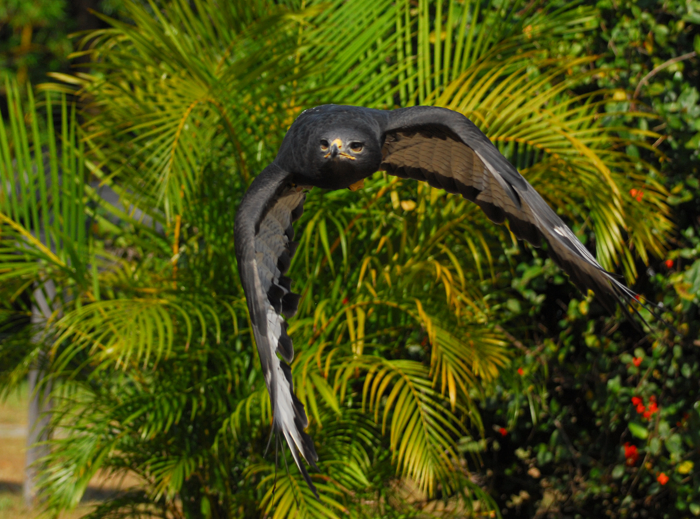 Photo by Matt Edmonds. An Augur Buzzard in flight. Photo is of a dark moph.